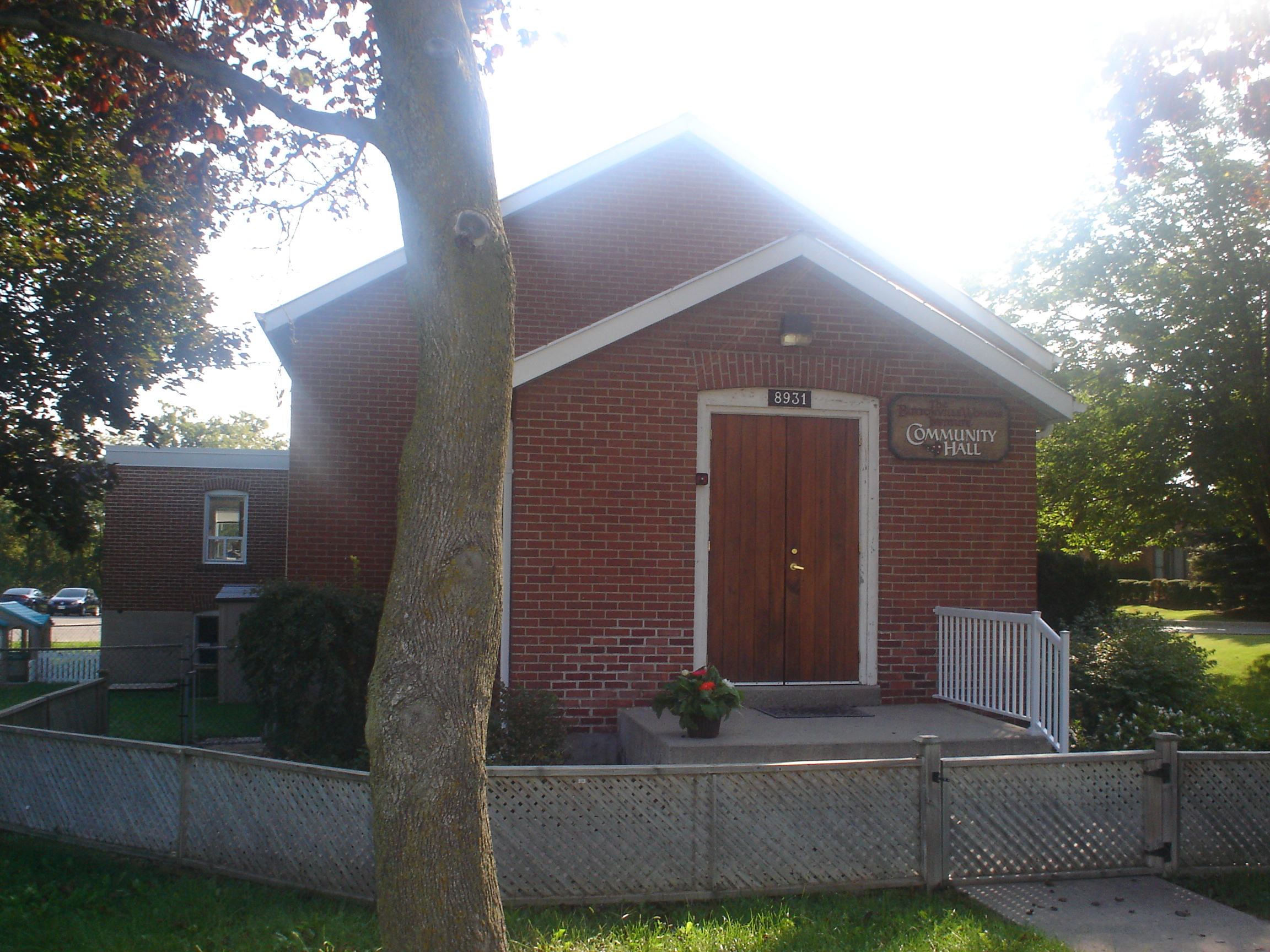 Front door to the Buttonville Women's Institute Community Hall. Located at 8931 Woodbine Ave, Markham, Ontario, Canada. Rather nice looking little place. The small fence is used by the daycare to keep the children away from Woodbine Avenue (which is directly behind the photographer).